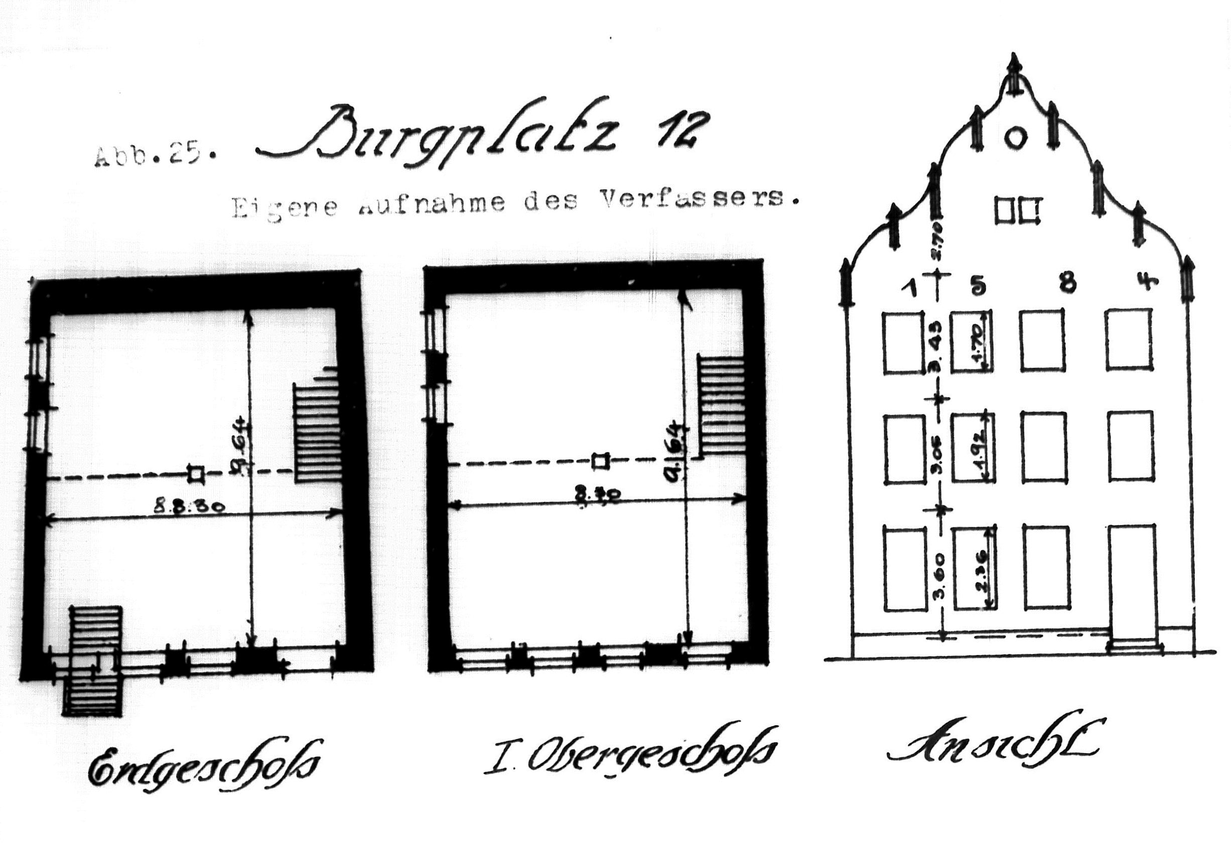 Paul Sültenfuß (* 12. August 1872 in Unna-Königsborn Kreis Hamm i.W.; † 28. April 1937 in Düsseldorf) Giebelhaus Burgplatz_12 in Düsseldorf, (Das Düsseldorfer Wohnhaus bis zur Mitte des 19. Jahrhunderts, 1922).jpg